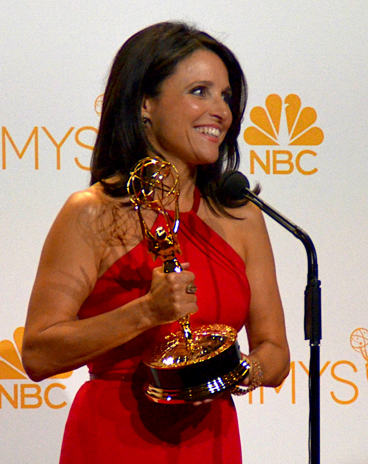 Actress Julia Louis-Dreyfus at the 66th Emmy® Awards Media Press Room to Interview Winners at the Nokia Theater at LA LIVE on September 22, 2014.